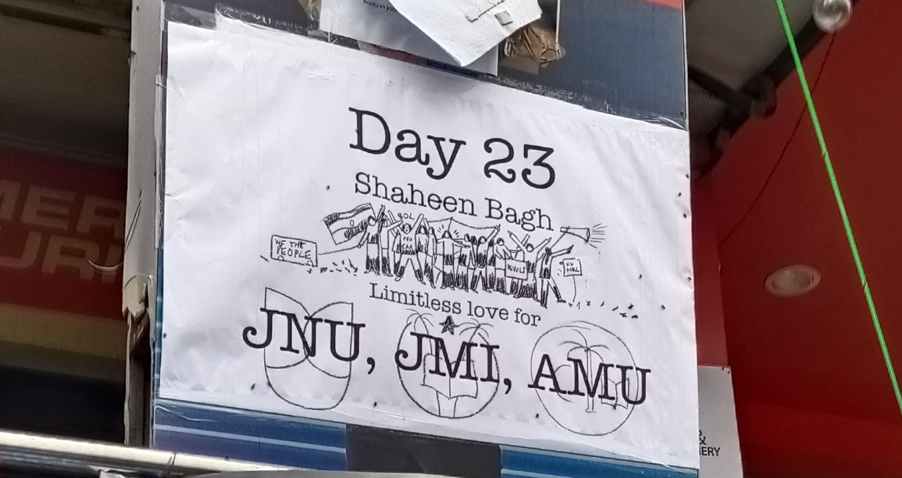 Standing in solidarity with AMU JNU Jamia Shaheen Bagh anti CAA NRC police brutality protests New Delhi 8 Jan 2020